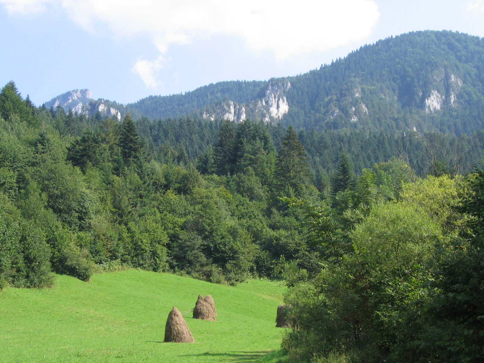 Malá Fatra, near village Biely potok, Slovakia